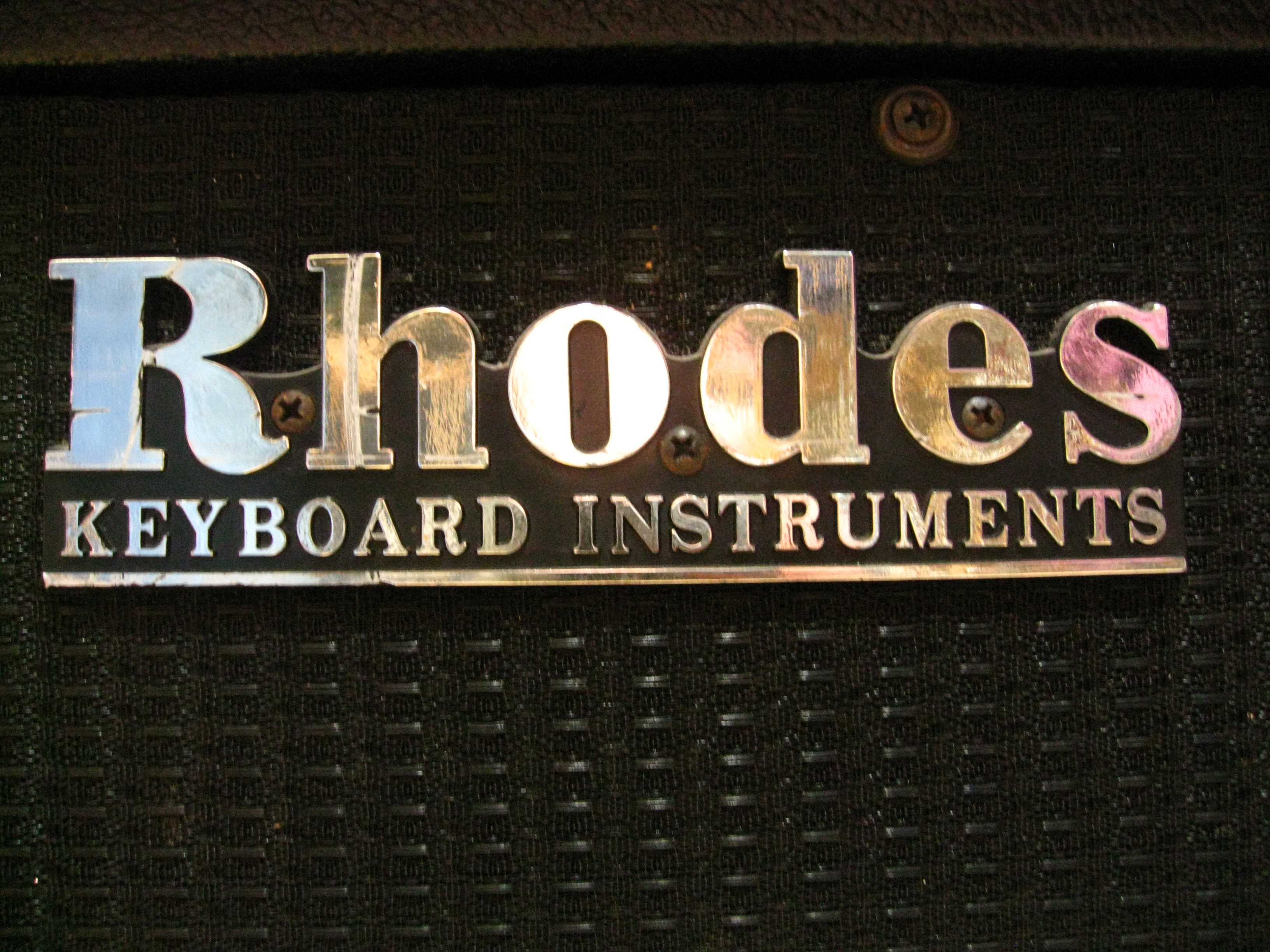 Rhodes logo on Rhodes MarkI Suitecase Supernatural Sound Recording Studio (IMG_6652)